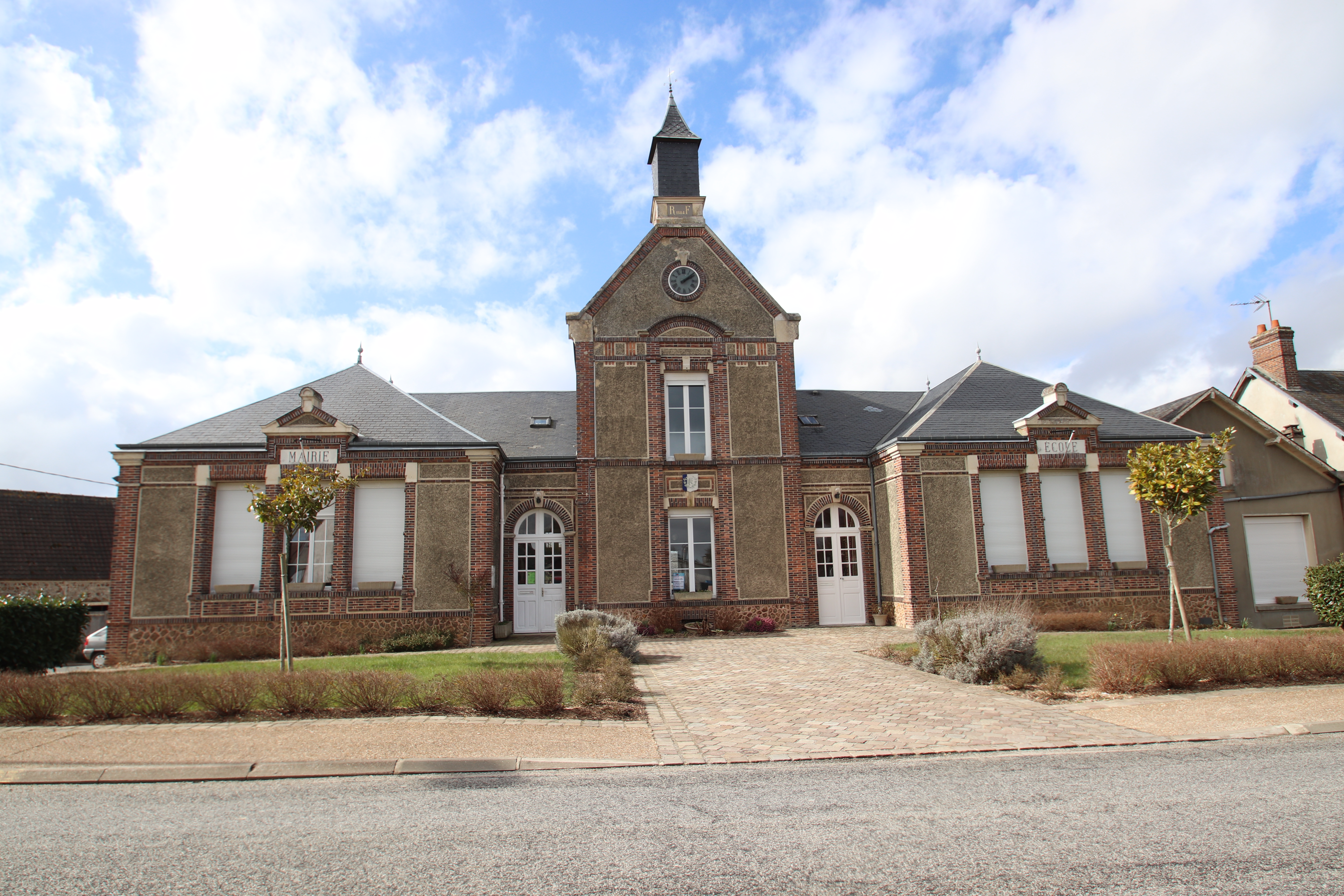 Town hall of Saint-Éliph, France. Object location48° 27′ 02.56″ N, 1° 01′ 29.53″ E